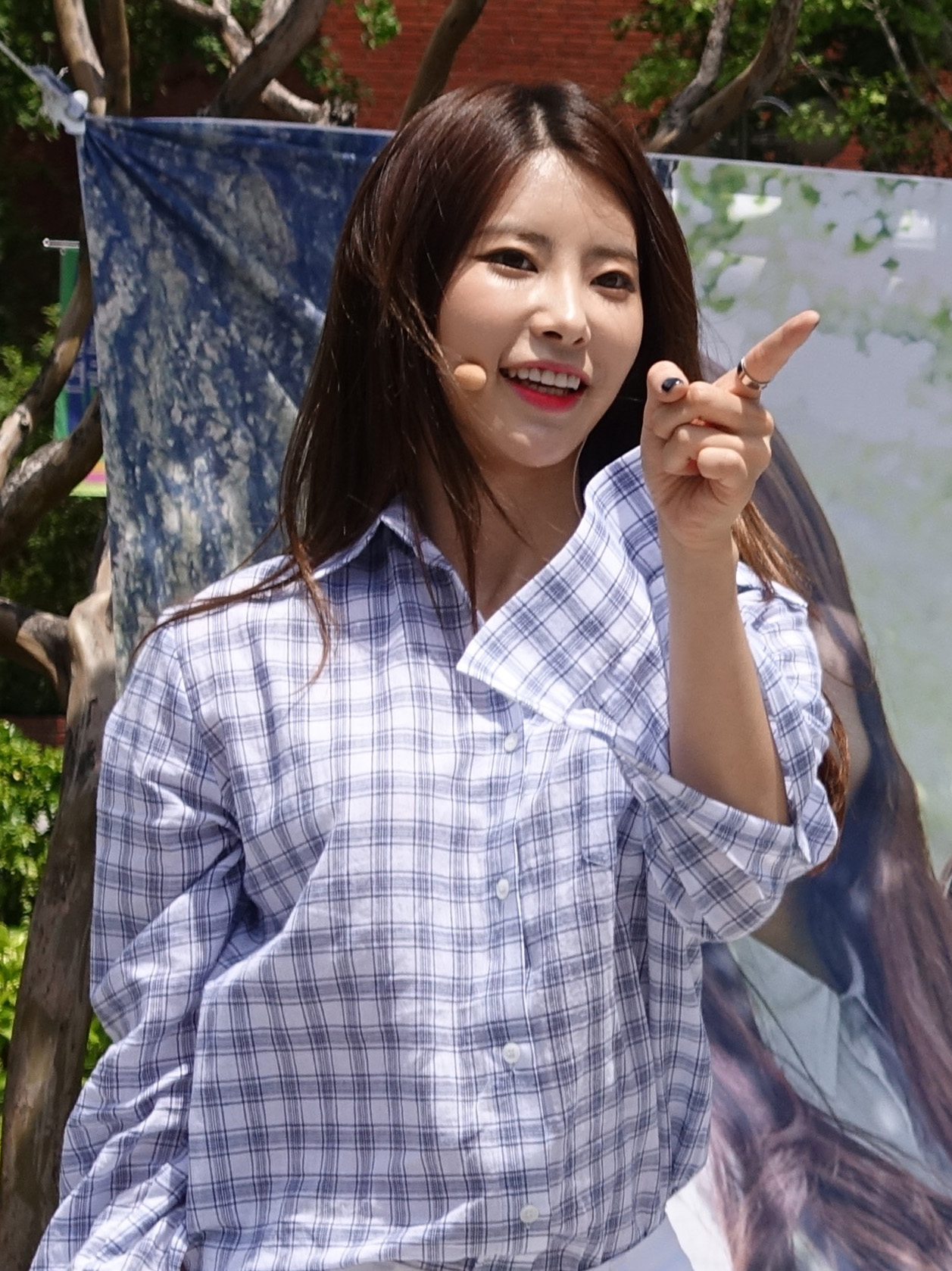 20160625 Hui Hyeon Busking